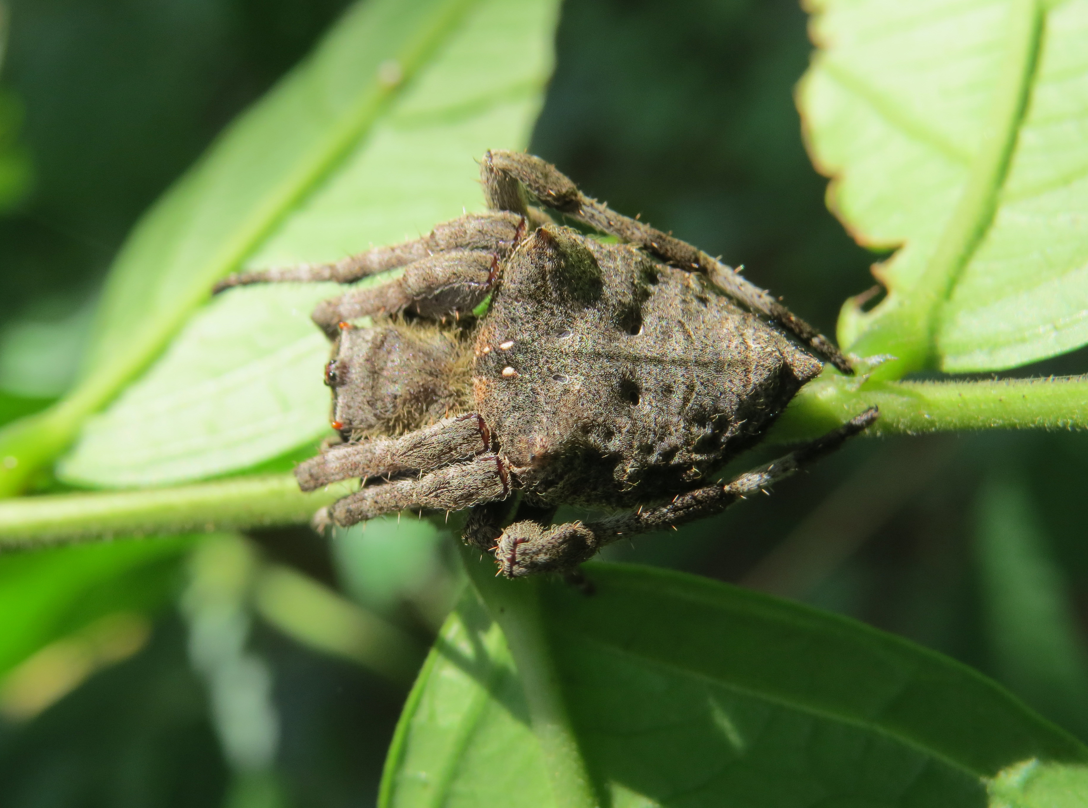 Parawixia dehaani